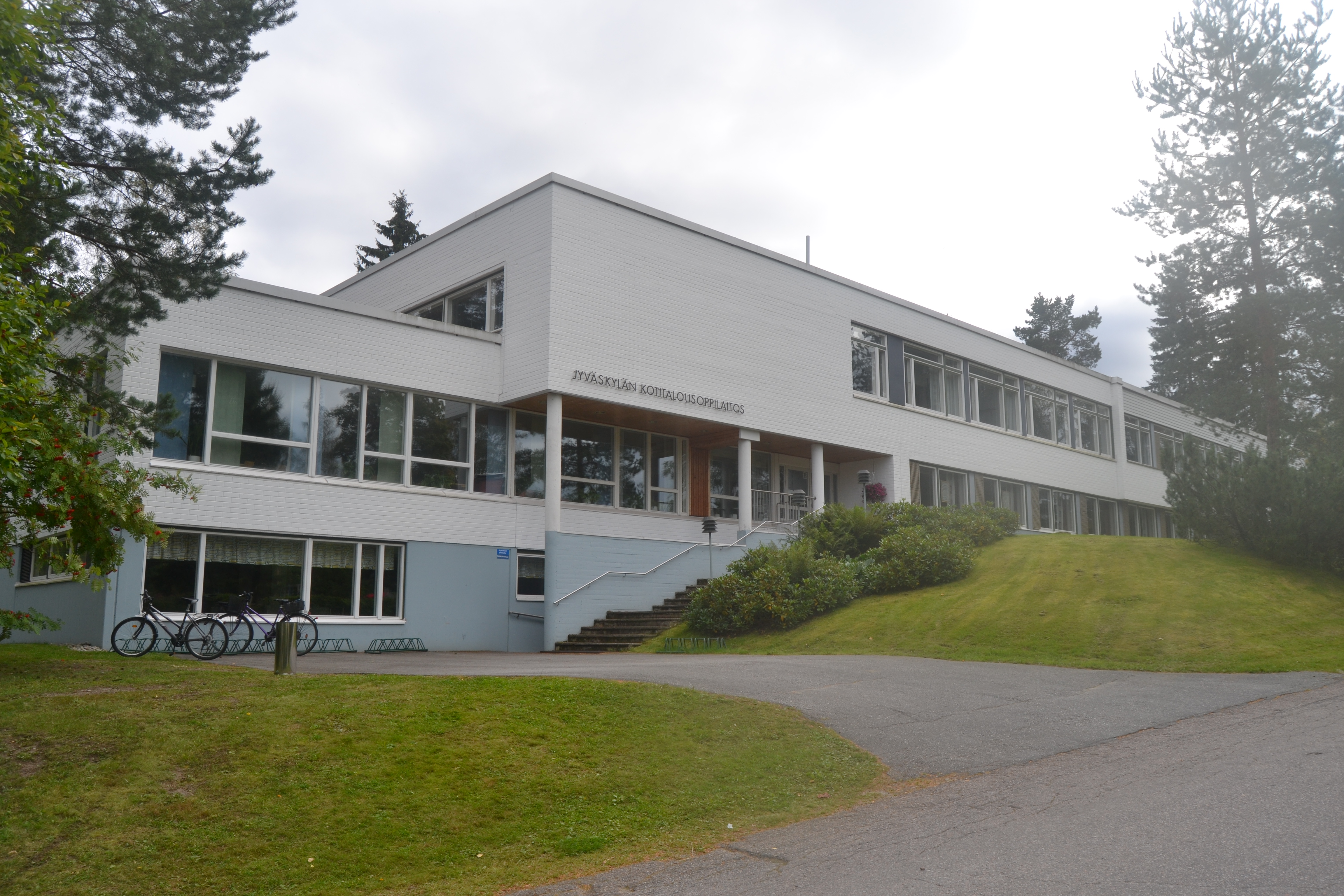 Jyväskylä School of Home Economics in Finland